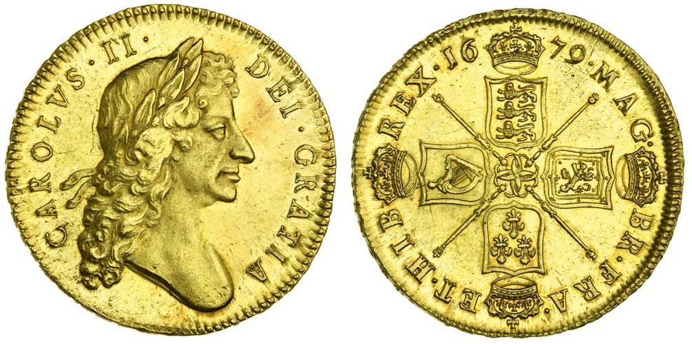 Charles II, Five Guineas, 1679